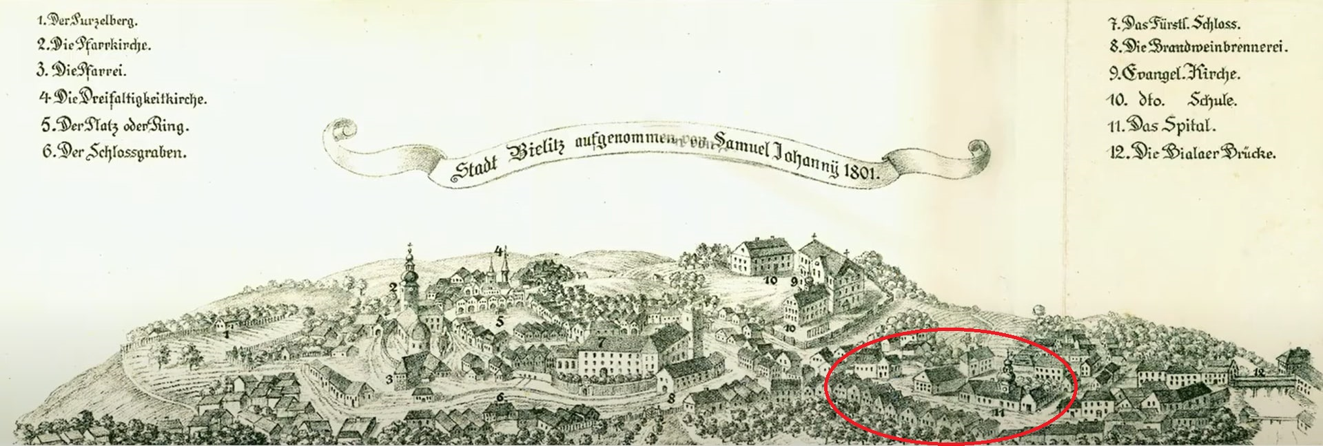 General view of Bielsko (Bielitz) from east in 1801. Woodcut by Samuel Johanny. Marked contemporary Franciszek Smolka Square.